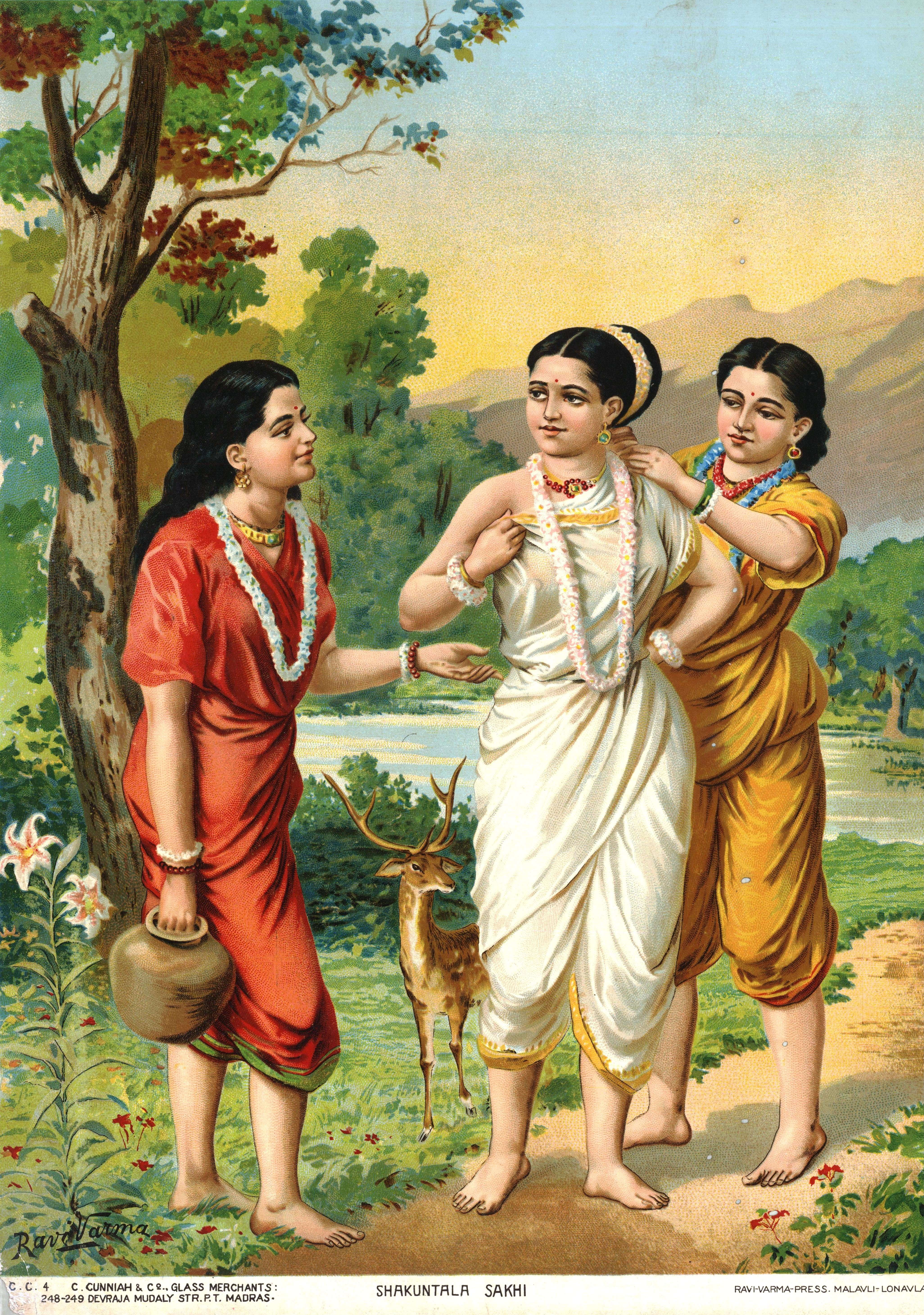 Shakuntala and Friends.